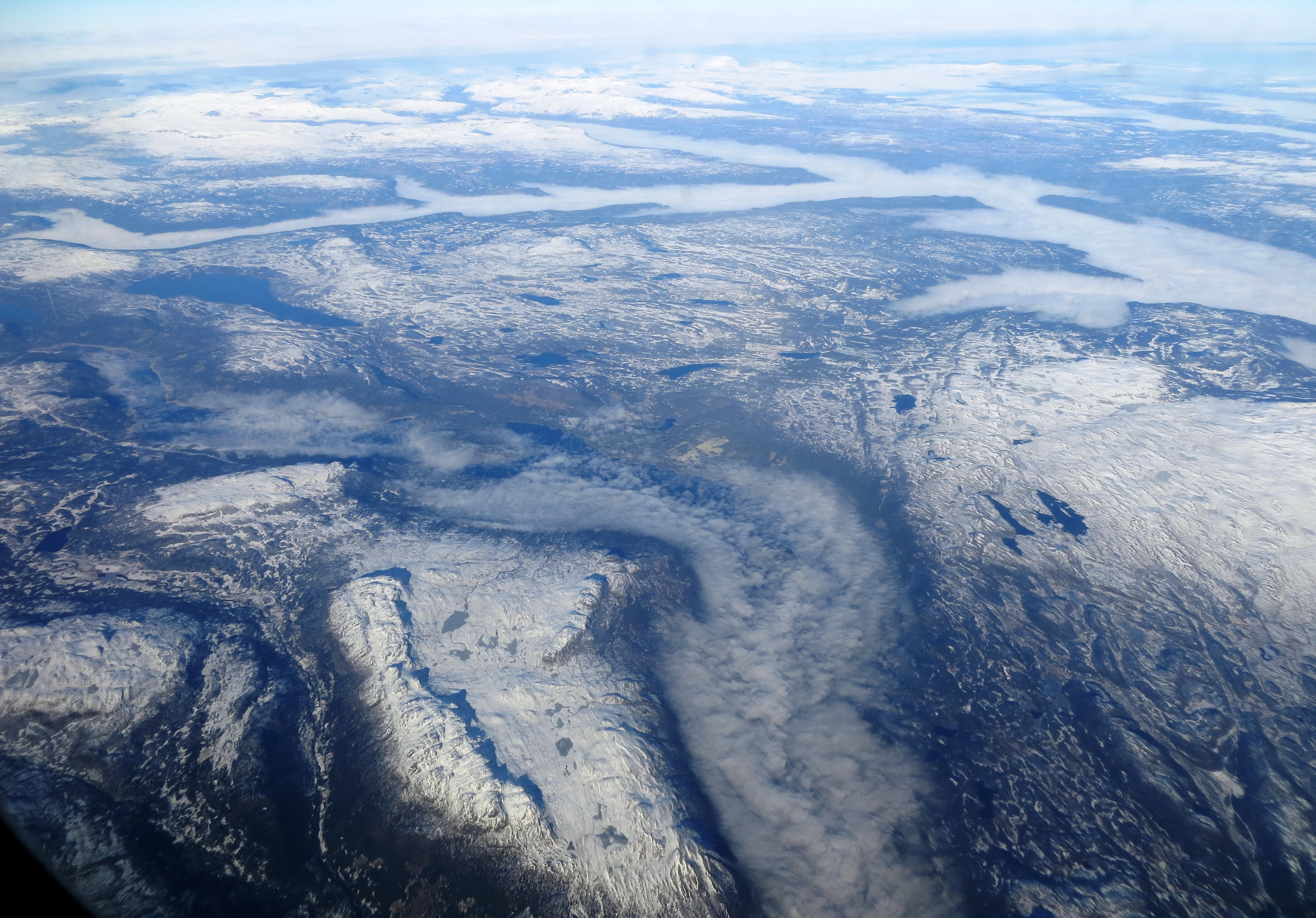 Aerial view from the south towards the north, of the mountaneous areas of Nore and Uvdal muniocipality, higher Buskerud county, Norway.